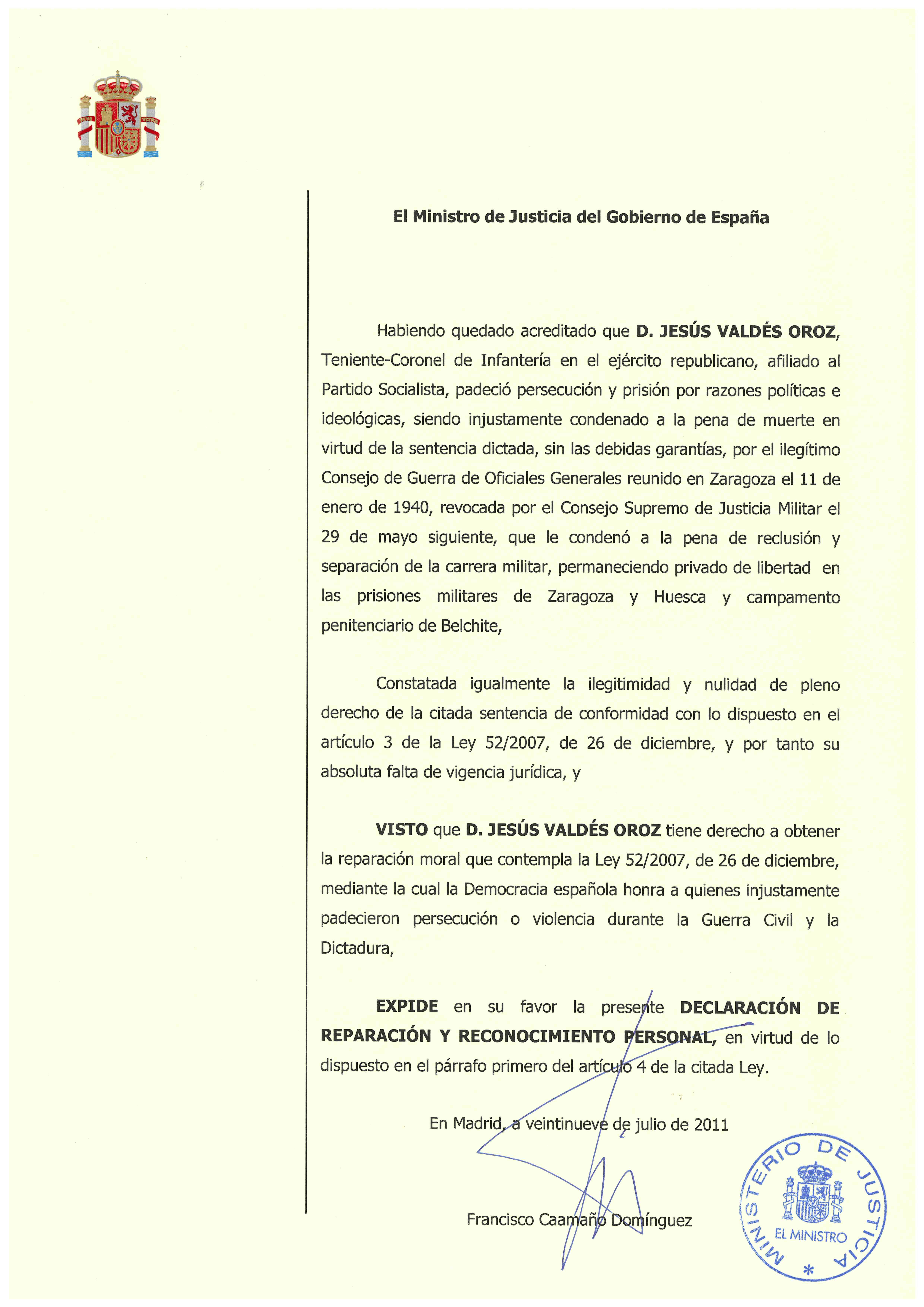 JVO Reparación